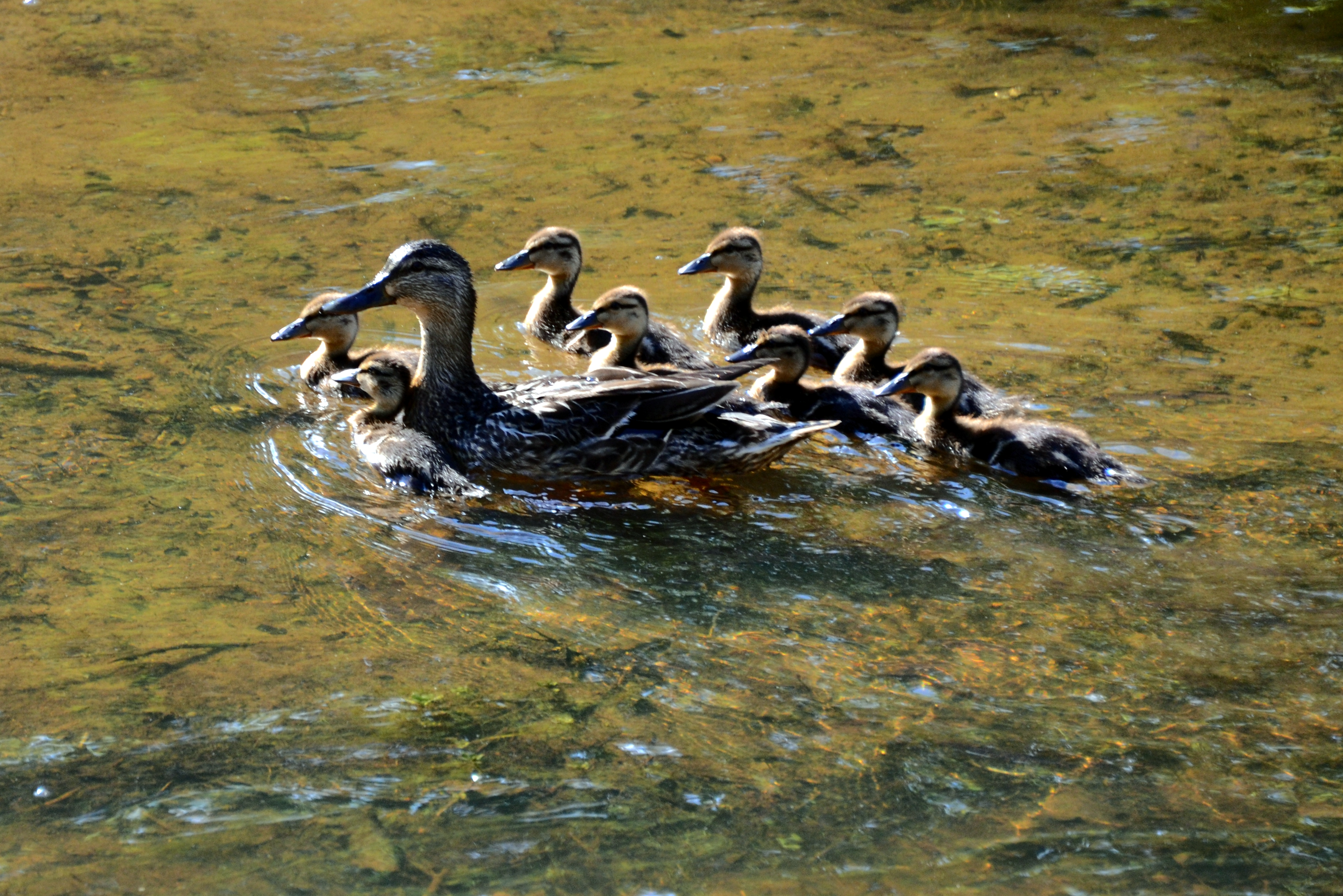 The baby mallards were all over the creek, but within 10 feet of mom, but when I stepped on the bridge they all rushed to mom's side and she took them to safety under the bridge.